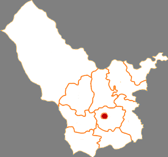 Locator map of Jining District in Ulanqab City, Inner Mongolia, China